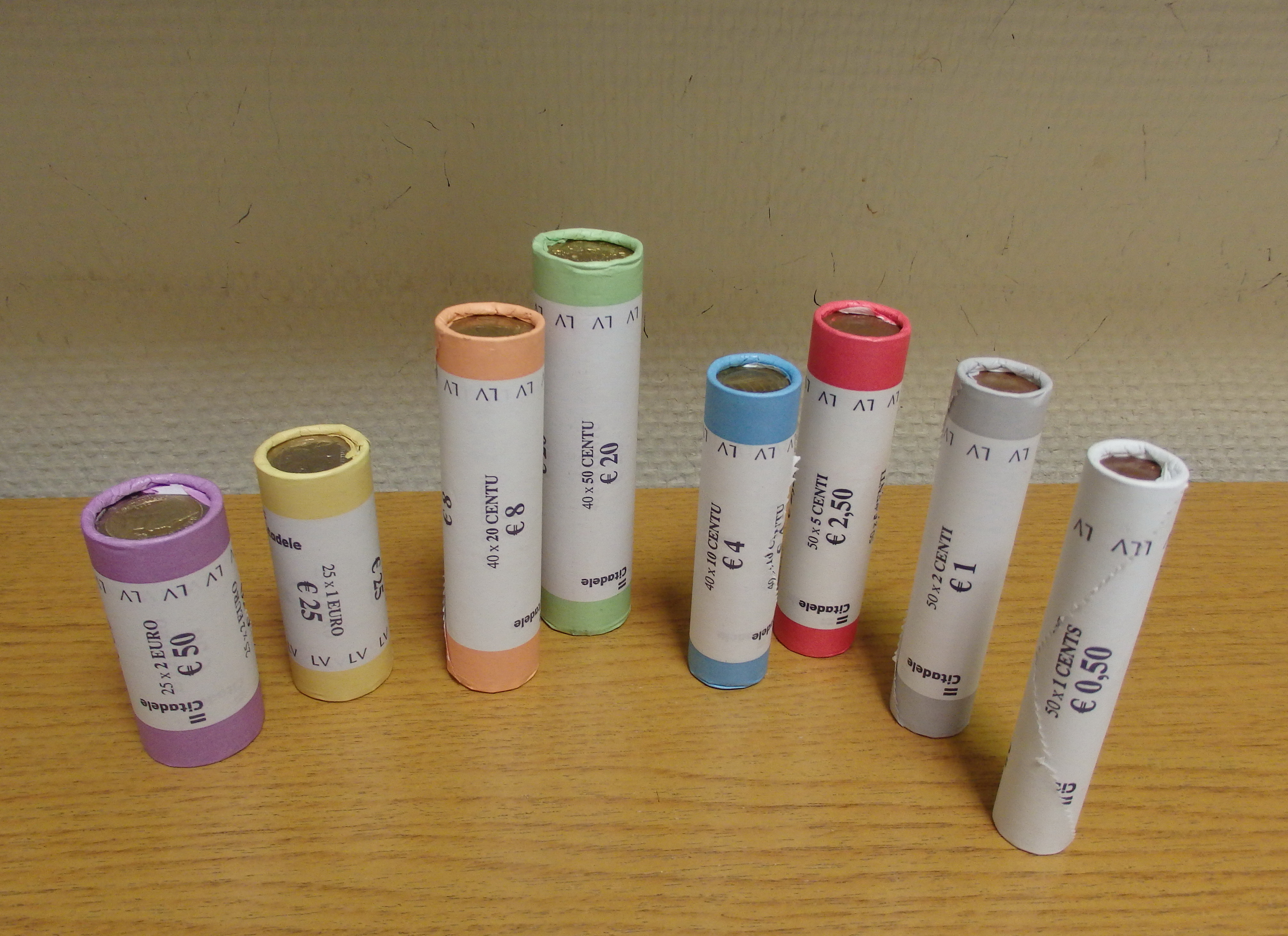 Latvian euro coins in various values